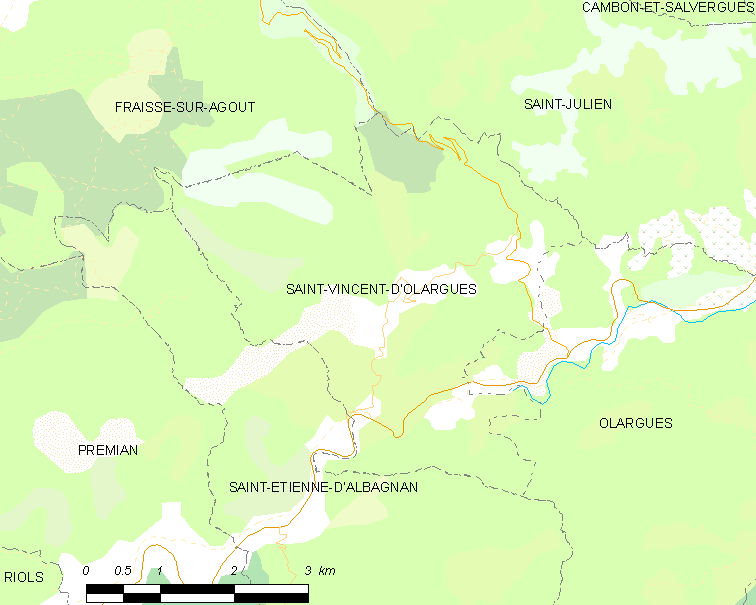 Map commune FR insee code 34291.png - Saint-Vincent-d'Olargues